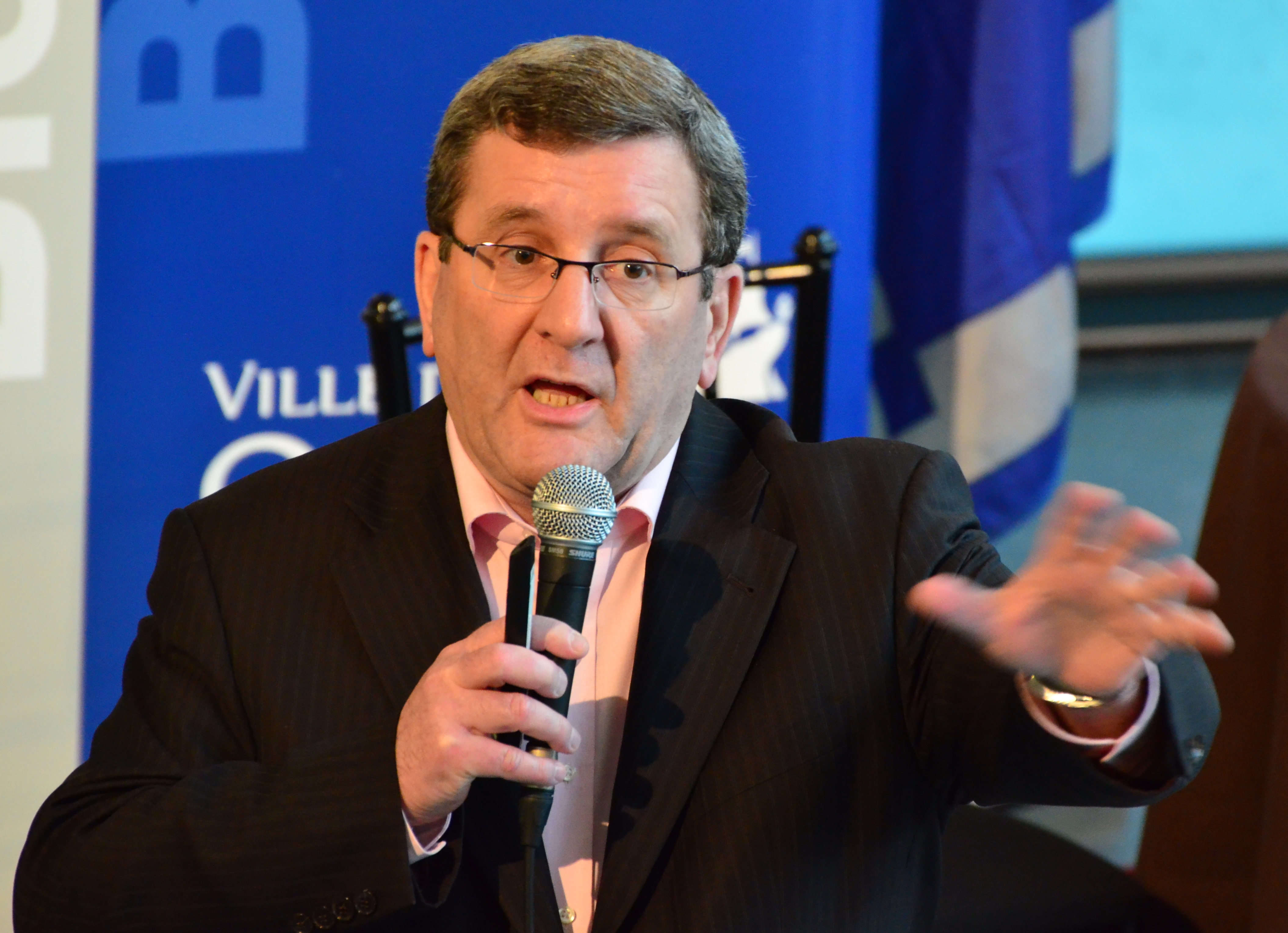 Quebec City's mayor Régis Labeaume during a conference at the Cégep Limoilou.